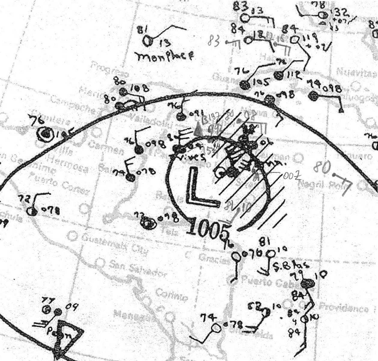 Surface weather analysis of the 1933 Tampico hurricane on September 21, 1933.